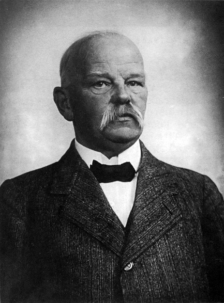 Frankfurt on the Main: Rudolf Jung (1859–1922), historian and city registrar